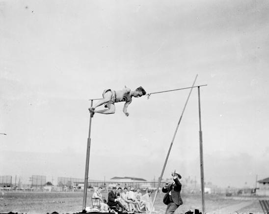 American athlete Louis Wilkins during the pole vault competition at the 1904 Olympic Games.